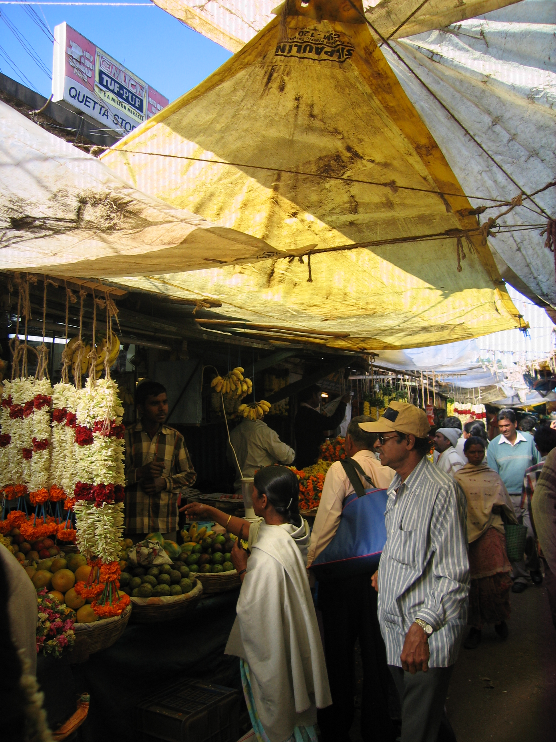 Ooty Municipal Market